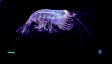 in situ image spit ball and fecal string of Antarctic krill image Uwe Kils.